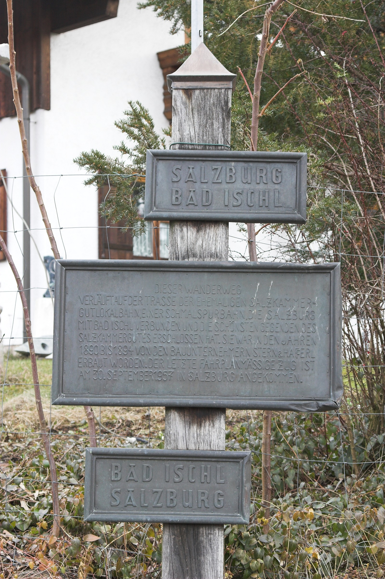 Commemorative plaque for the 1957 closed Salzkammergut-Lokalbahn narrow gauge line at the starting point of a cycle route on the trackbed on the outskirts of Salzburg.